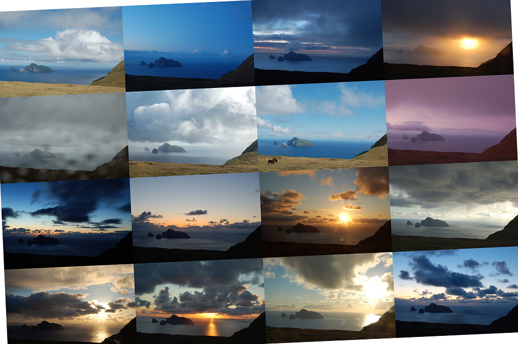 16 shots from Hirta showing Stac an Armin, Stac Lee et Boreray (from left to right).